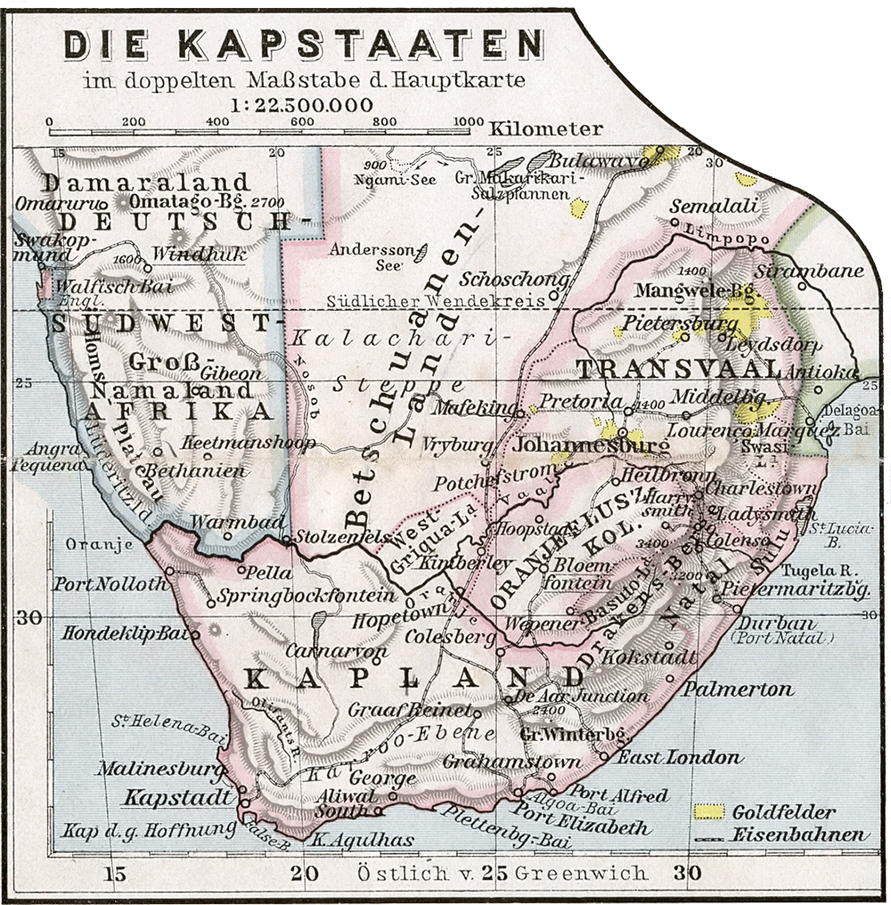 Historical map of the Cape States 1905